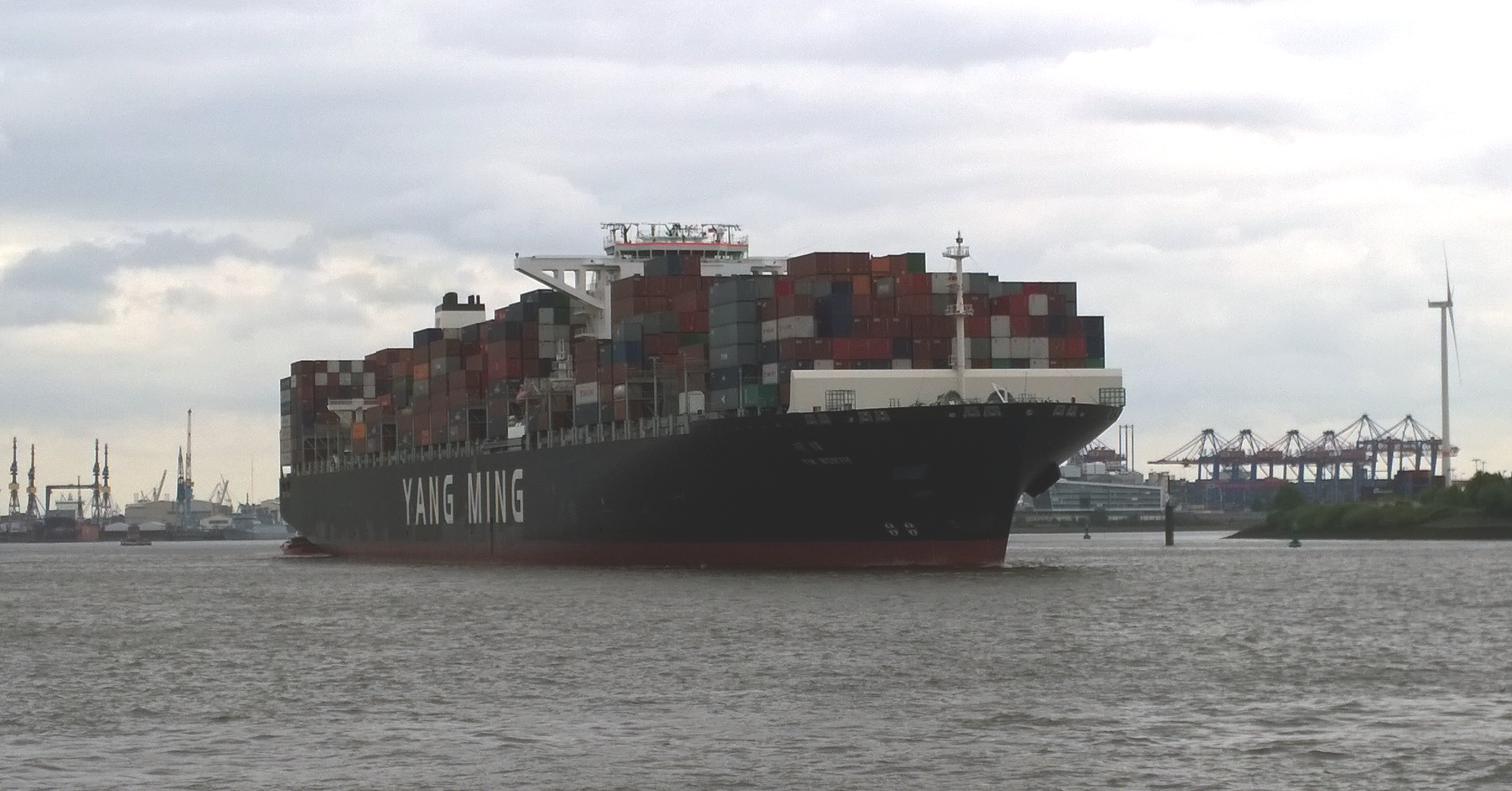 The container ship YM Wind leaves the port of Hamburg